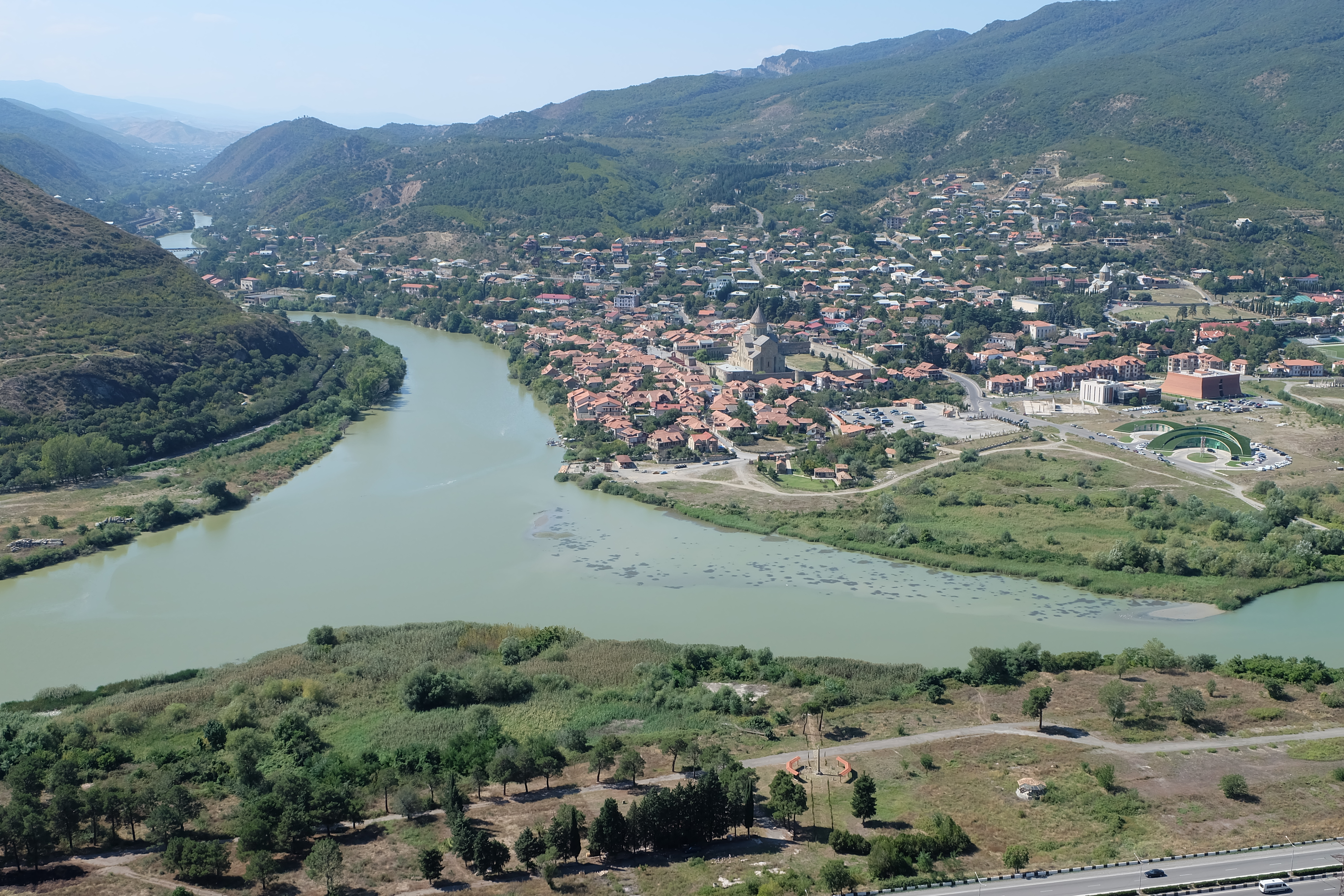 So here it is, the confluence of the Argavi and Mtkvari Rivers. The township you see at the meeting point of the two rivers is Mtskheta. As you can see, from this viewpoint, we can get a stunning view of Mtskheta (the old capital of the ancient Kingdom of Iberia), with Svetitskhoveli Cathedral in its very heart; the Saguramos mountains and the confluence of the the Aragvi and the Mtkvari (Kura) Rivers, which I have been mentioning all this time.(Jvari, Georgia, Sept. 2016)